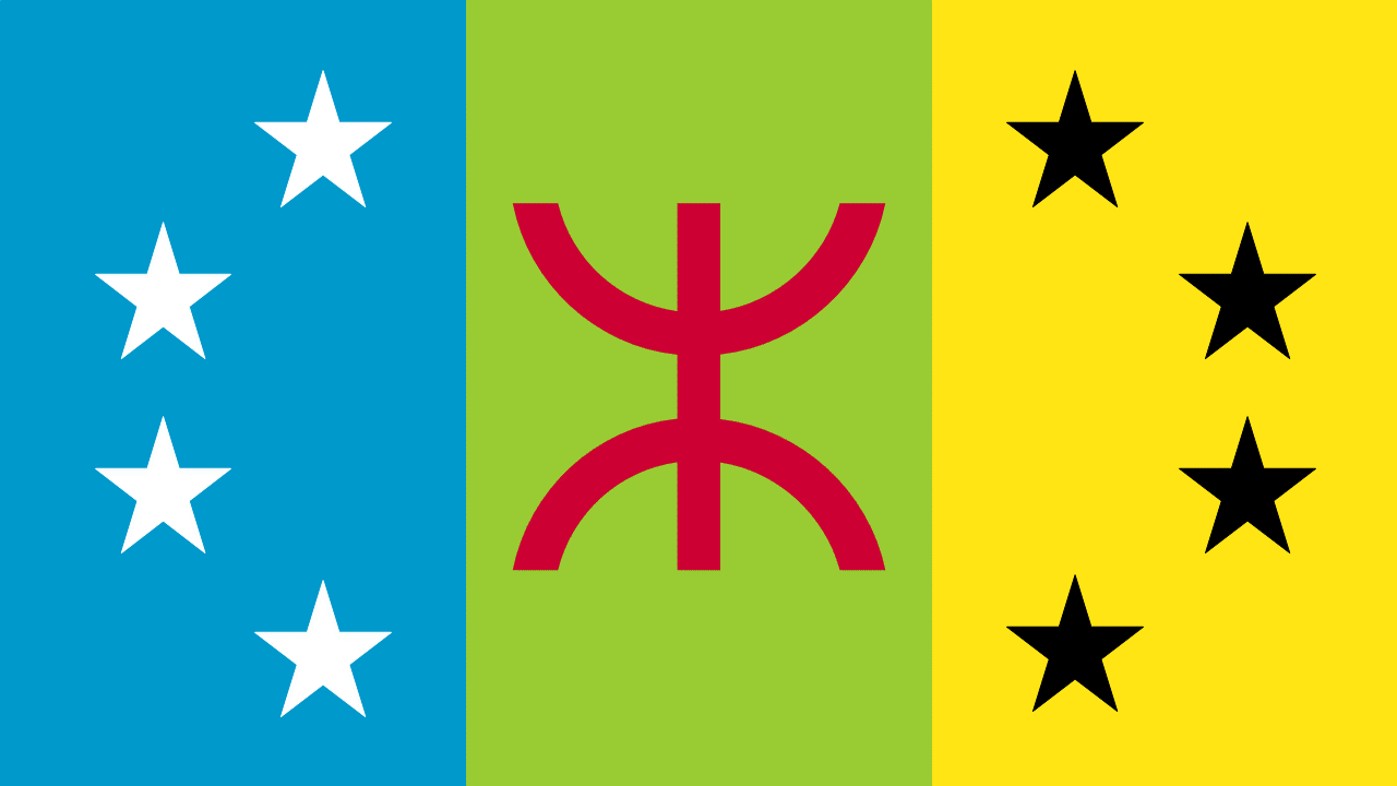 The republican flag of Morocco